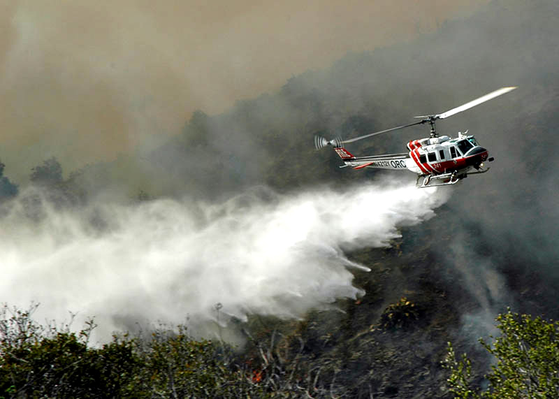 Foothill Ranch, Orange County, CA. Santiago Canyon Fire. View from Overlook Park as helicopters fly very low and spray into Whiting Ranch. FHR_Fire(65)